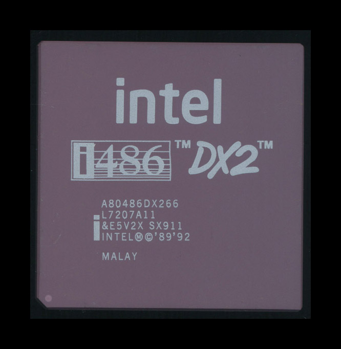 INTEL i486 DX2 66 mhz produzione 2007 con logo intel moderno